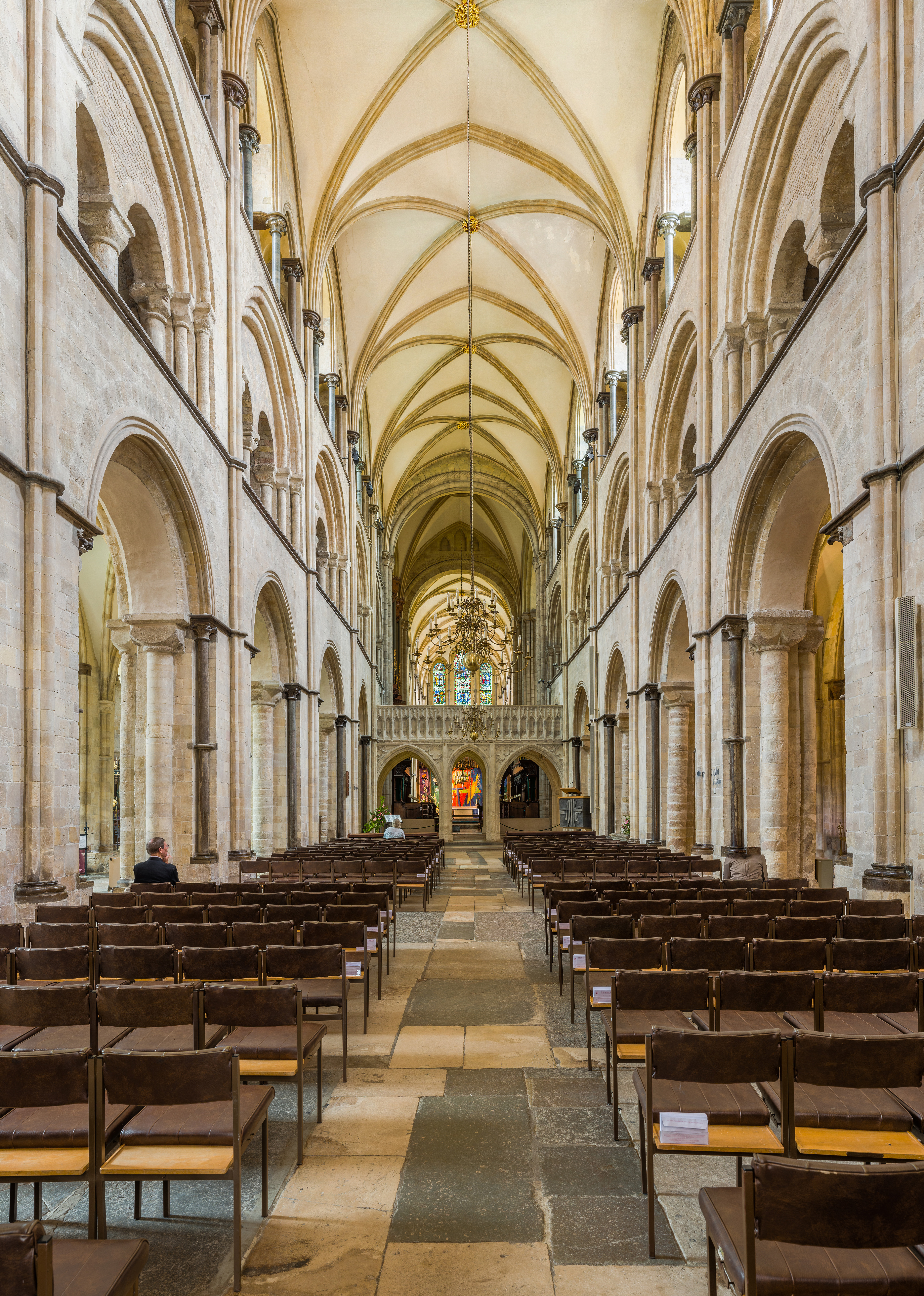 The nave of Chichester Cathedral looking east, in West Sussex, England.